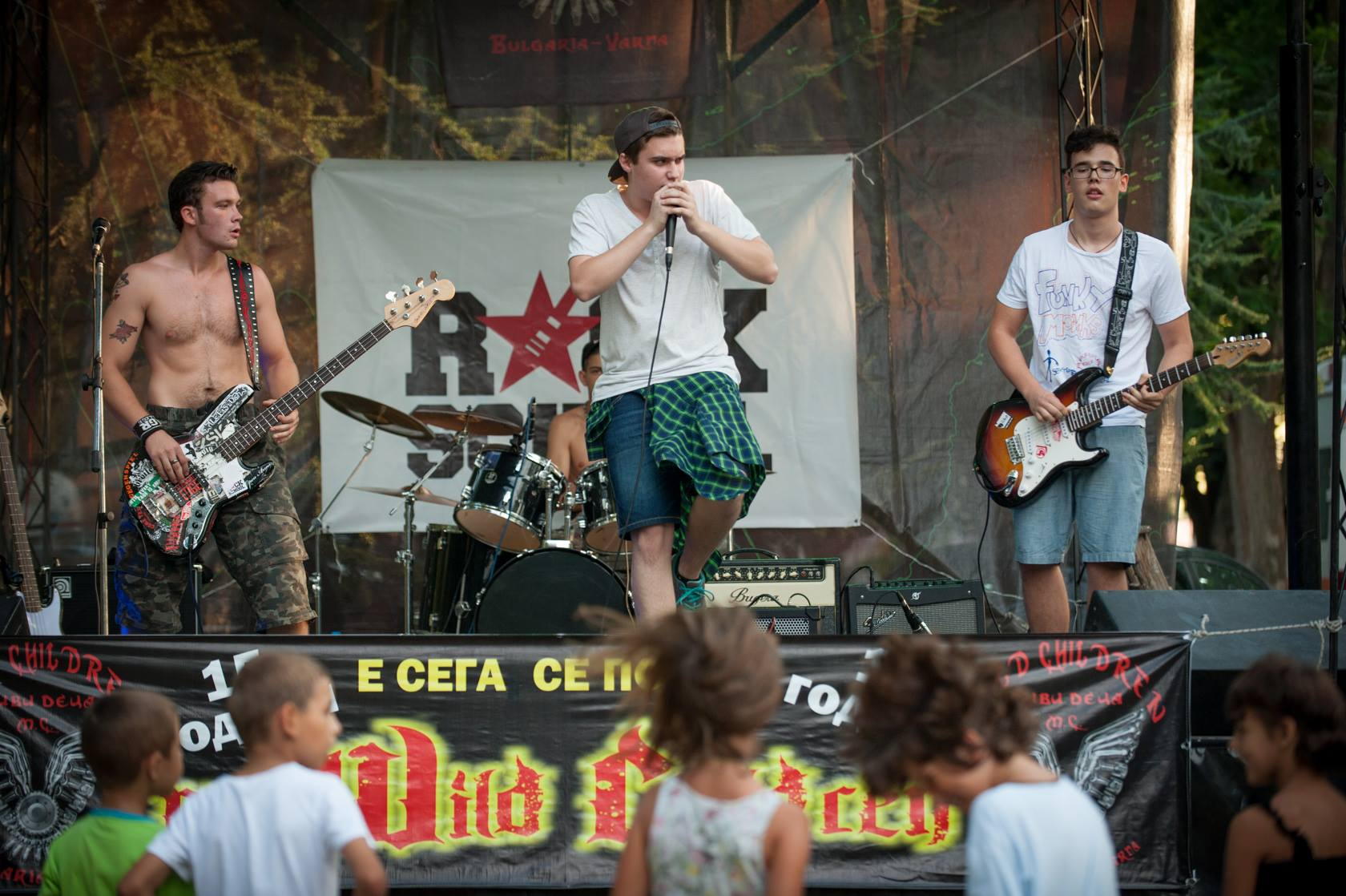 Funky monkz